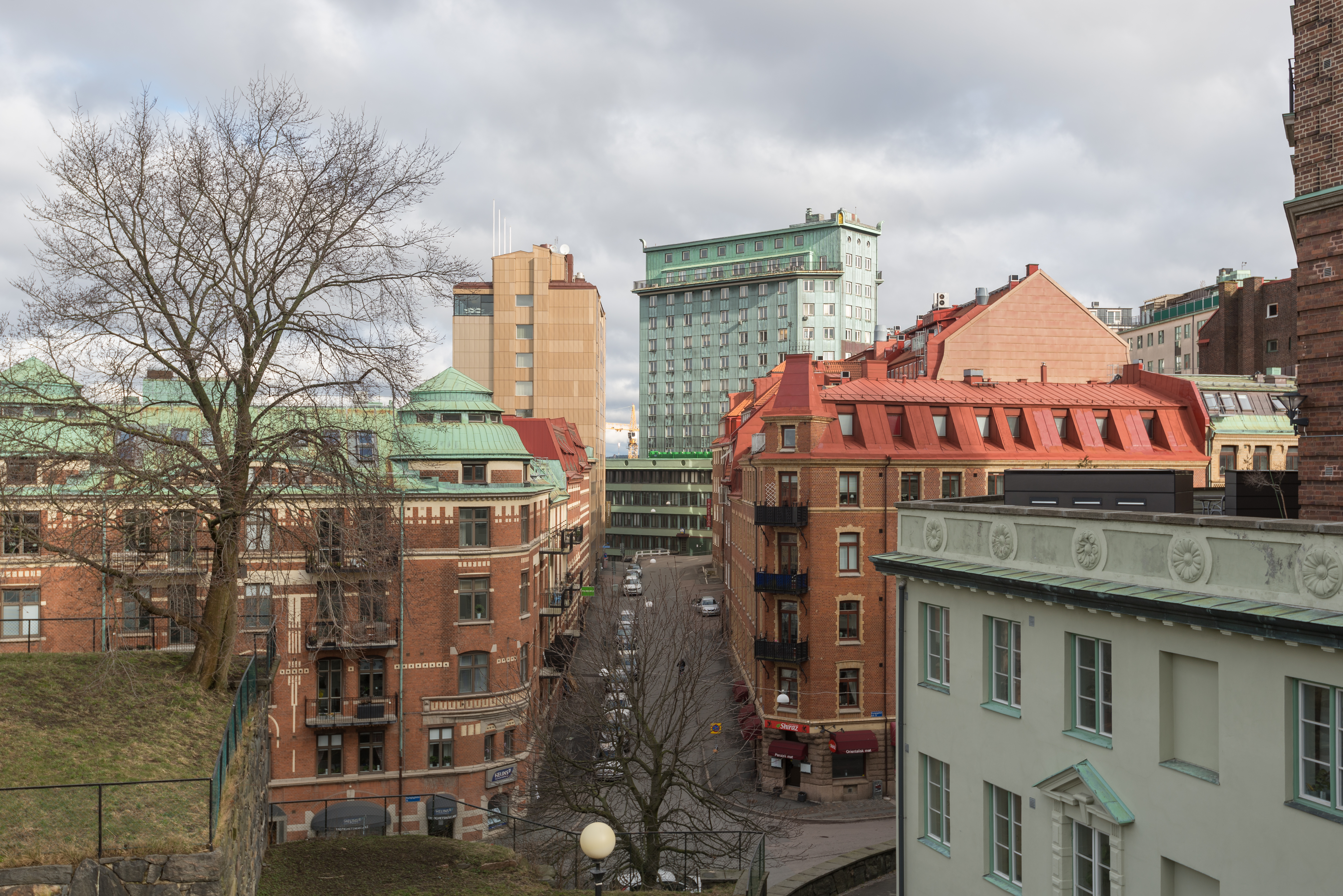 The street Ingenjörsgatan. Göteborg.